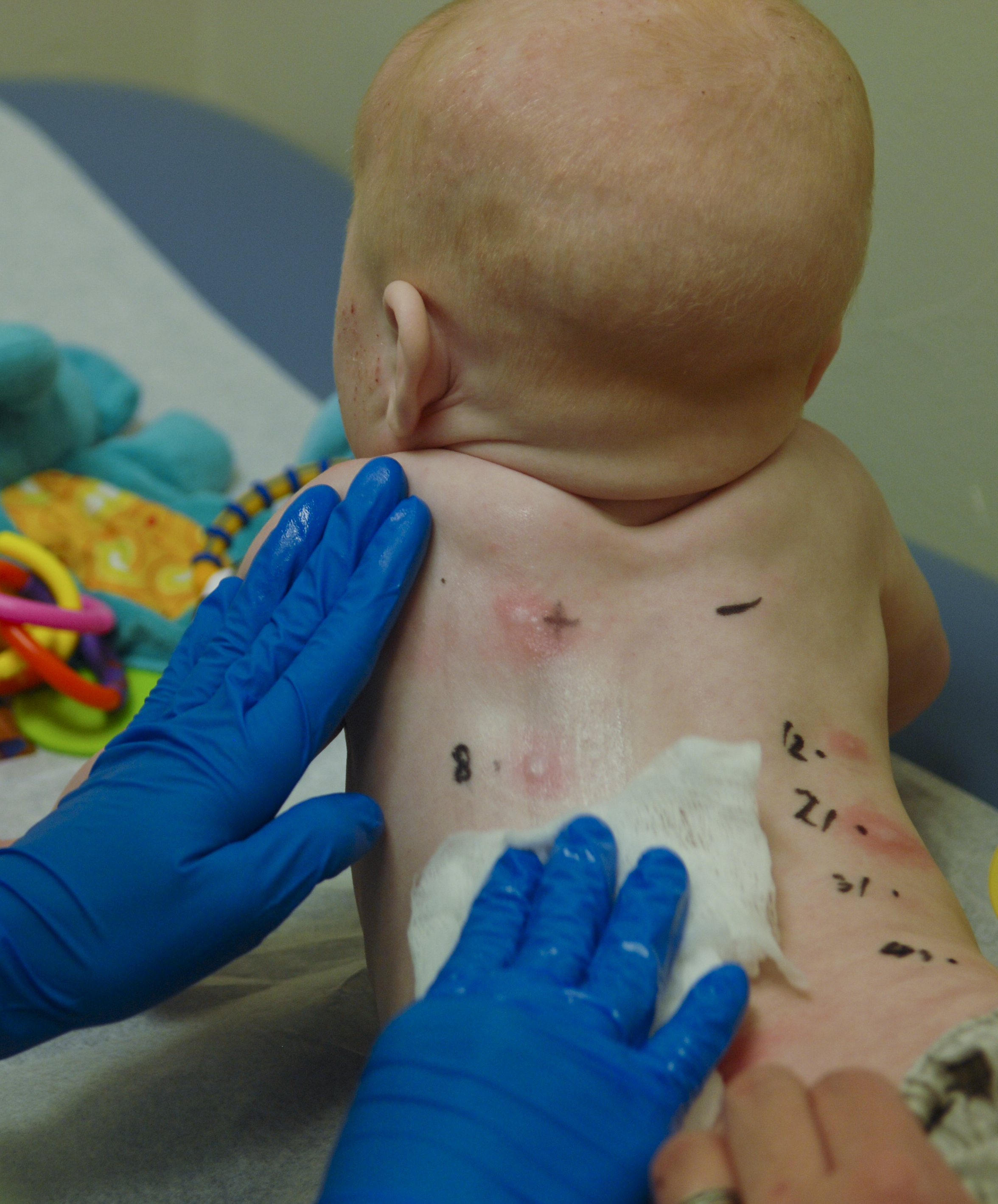 Senior Airman Catherine Settles, 633rd Medical Group aerospace medical technician, wipes allergens from a baby’s back after a skin prick test, Feb. 21, 2013, at U.S. Air Force Hospital Langley, Va. For this child, Settles tested common food allergies like peanuts, soy and egg.